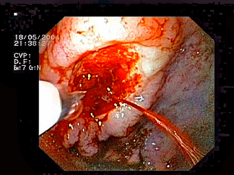 Bleeding gastric ulcer